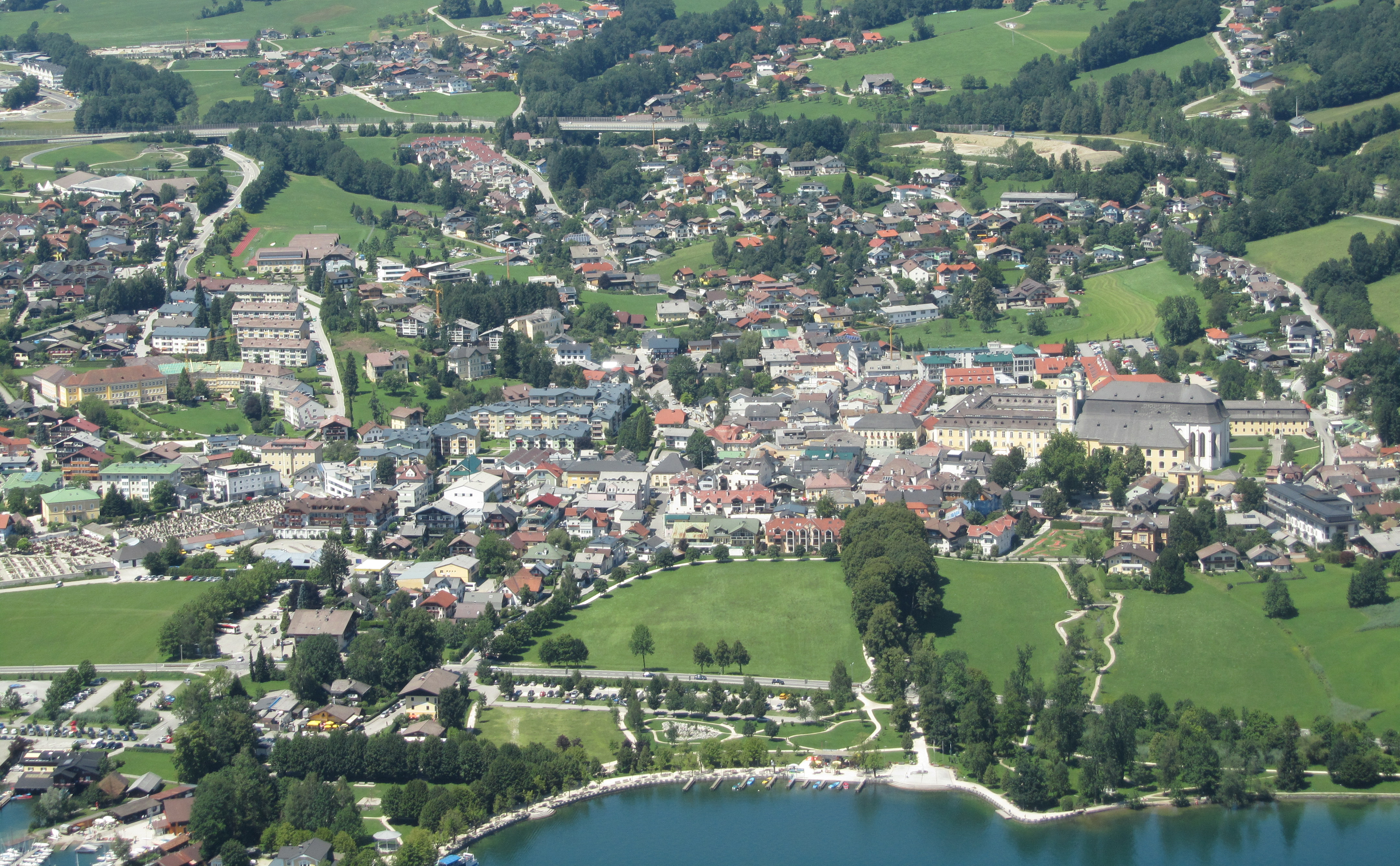 Mondsee (town) in the Salzkammergut region (Austria)